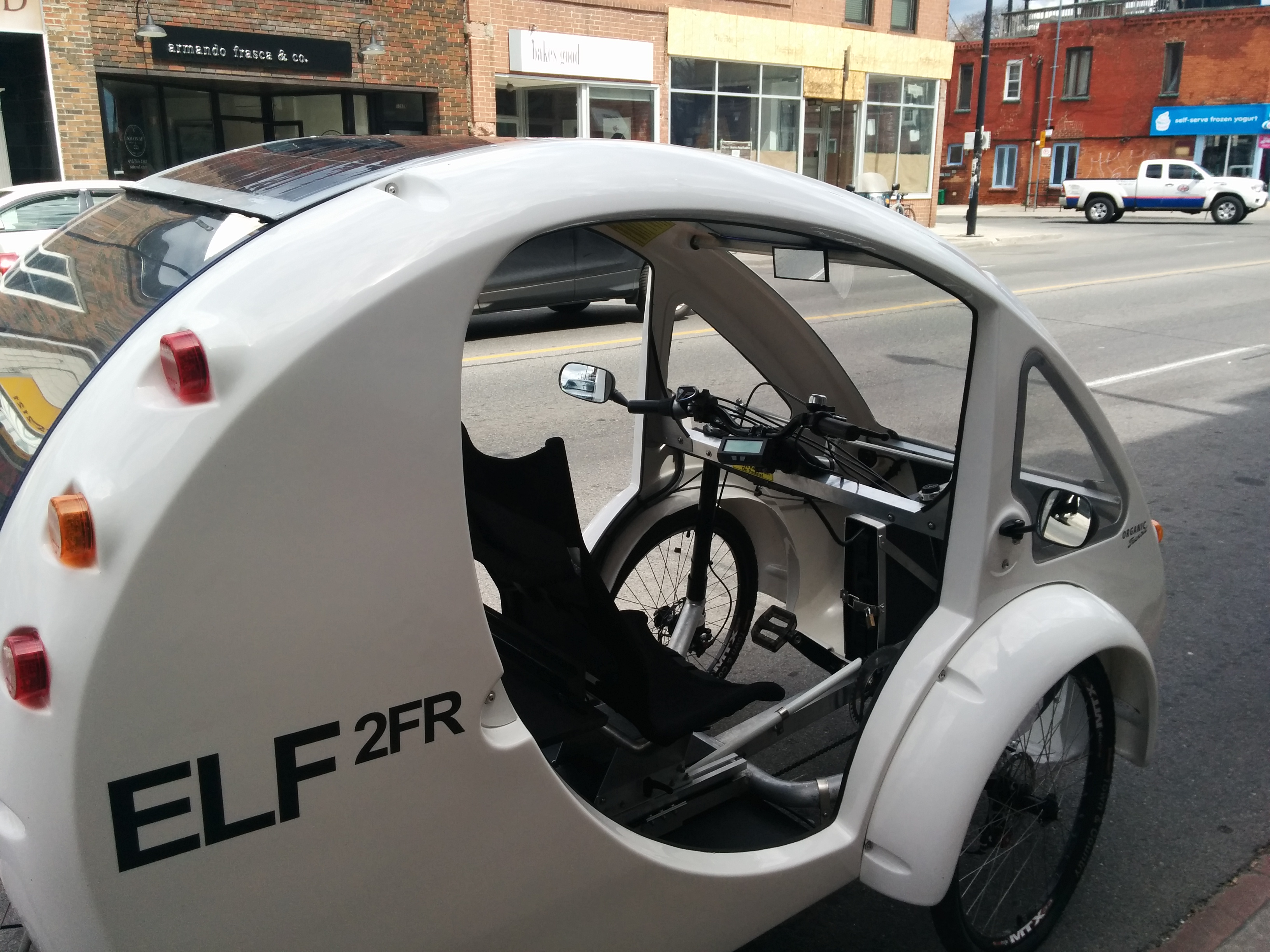 View of the ELF 2FR's controls, taken in the Junction, Toronto.